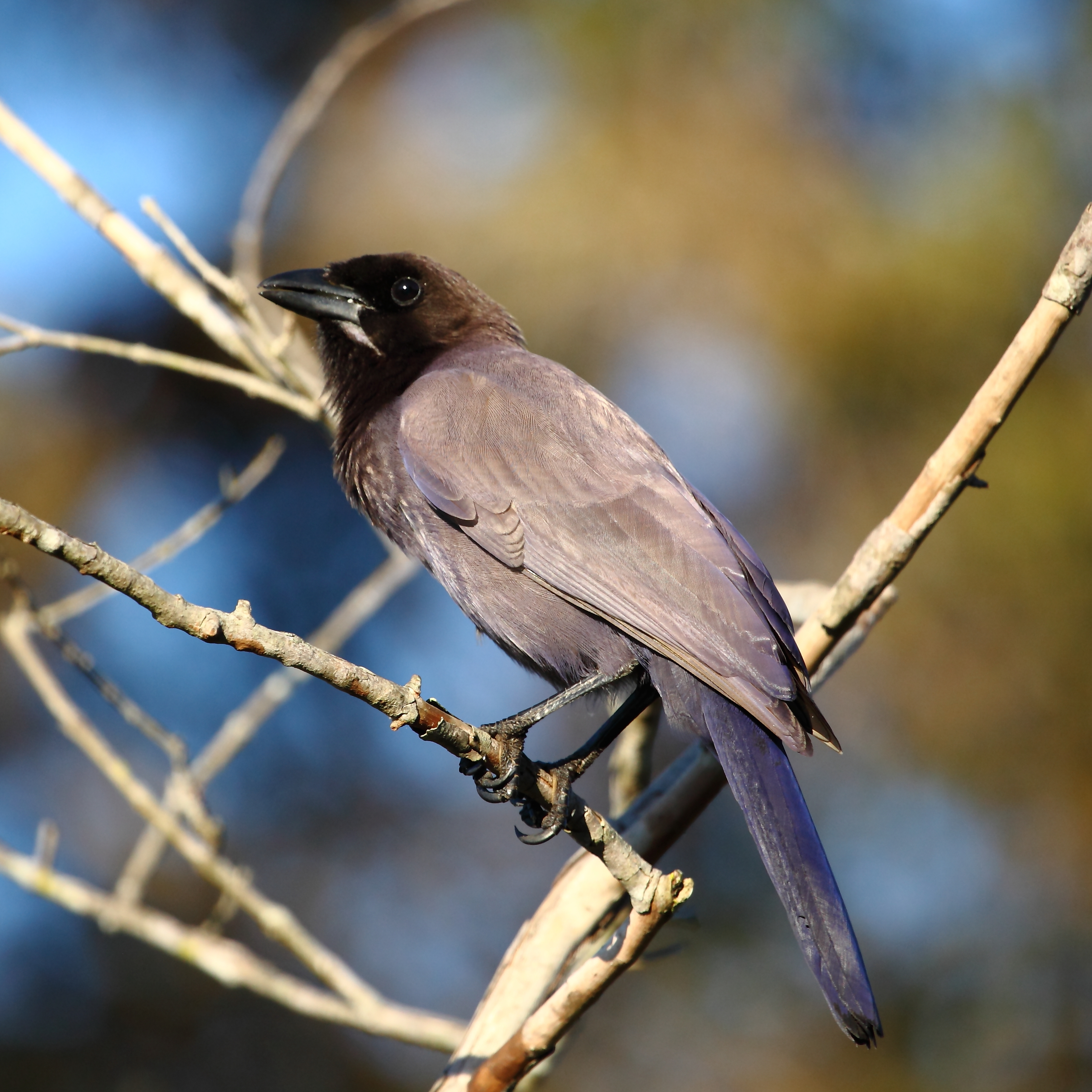 Purplish Jay at Pantanal, Poconé - MT - Brazil